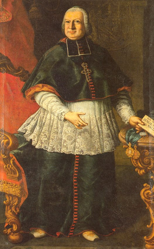 Michael Balthasar von Christalnigg prince-provost of Berchtesgaden from 1752 to 1768